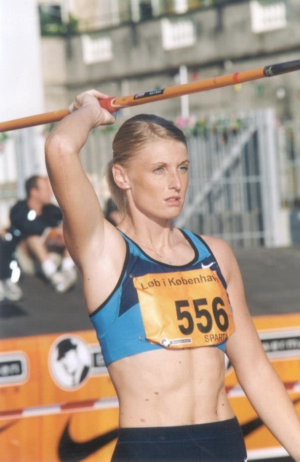 Javelin thrower Christina Scherwin about to throw the javelin